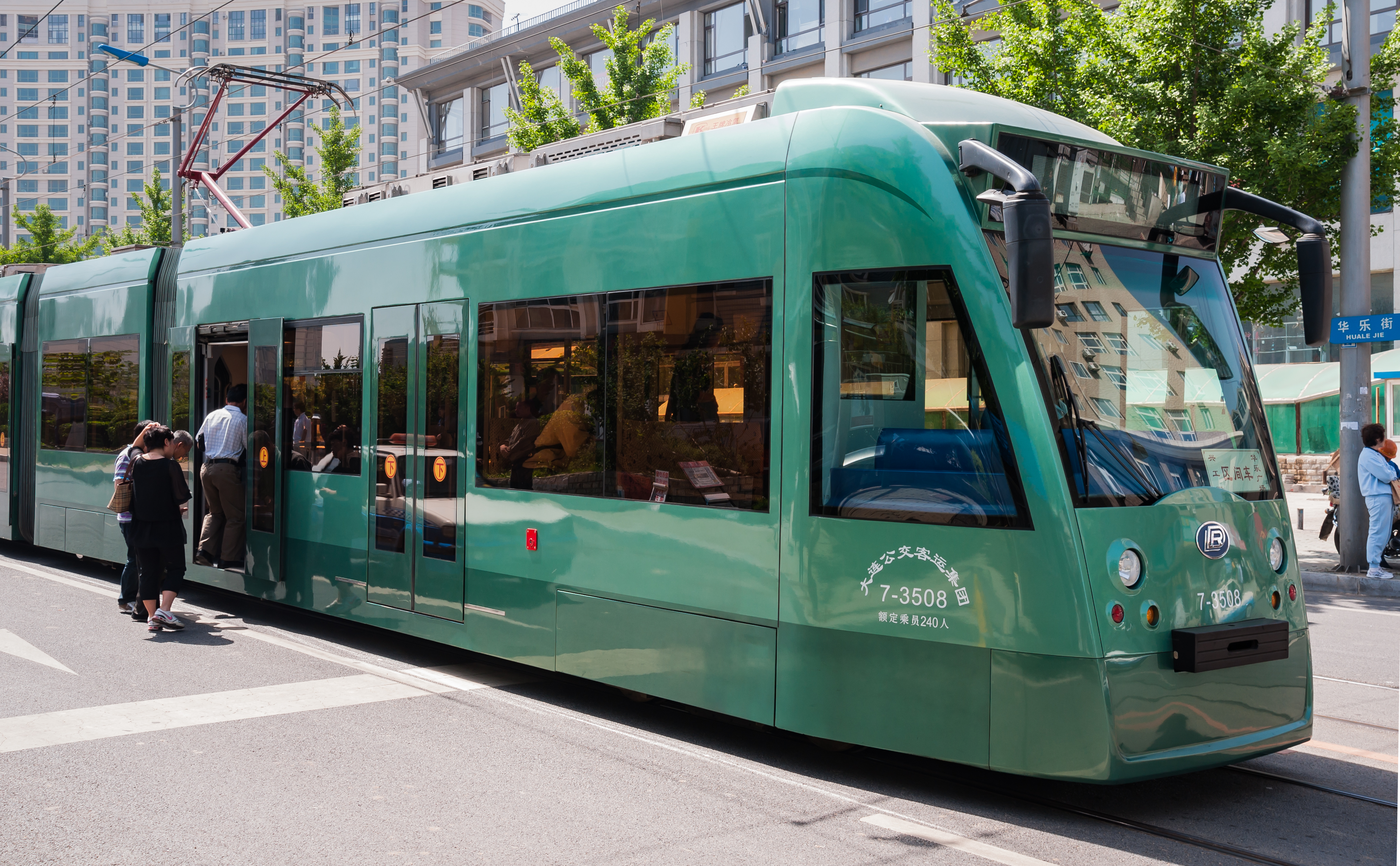 Dalian, Liaoning, China: Tramway Line 201 (formerly line 203).